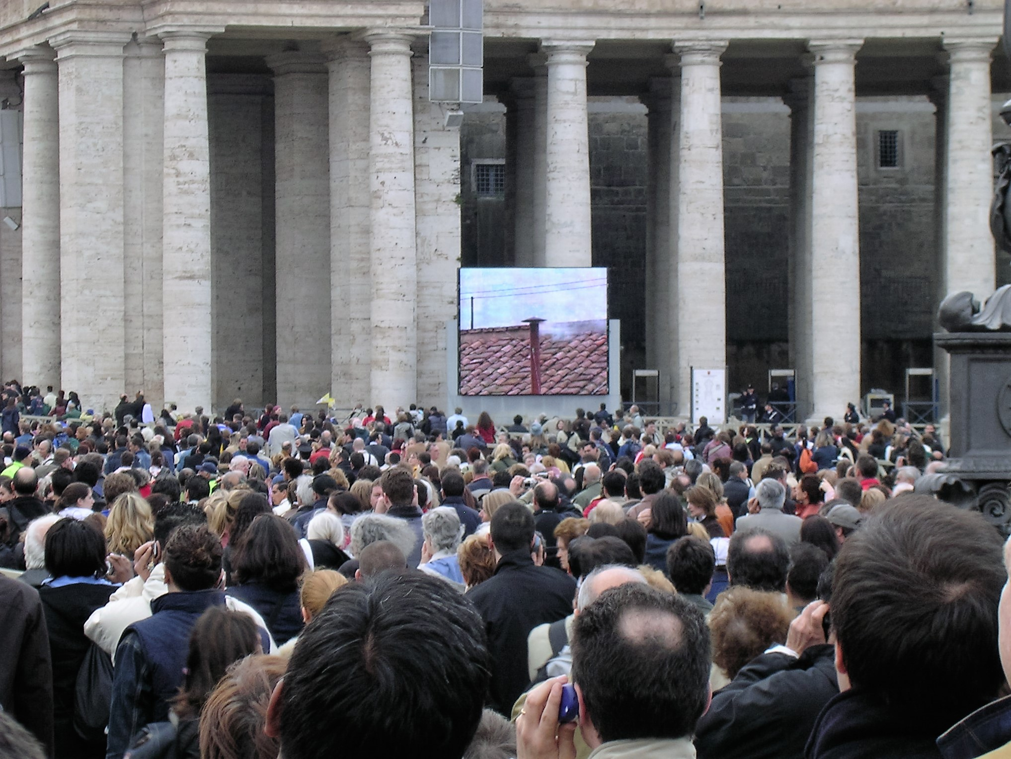 Conclave of 2005: White smoke indicates a new has been elected; in this case Pope Benedictus XVI